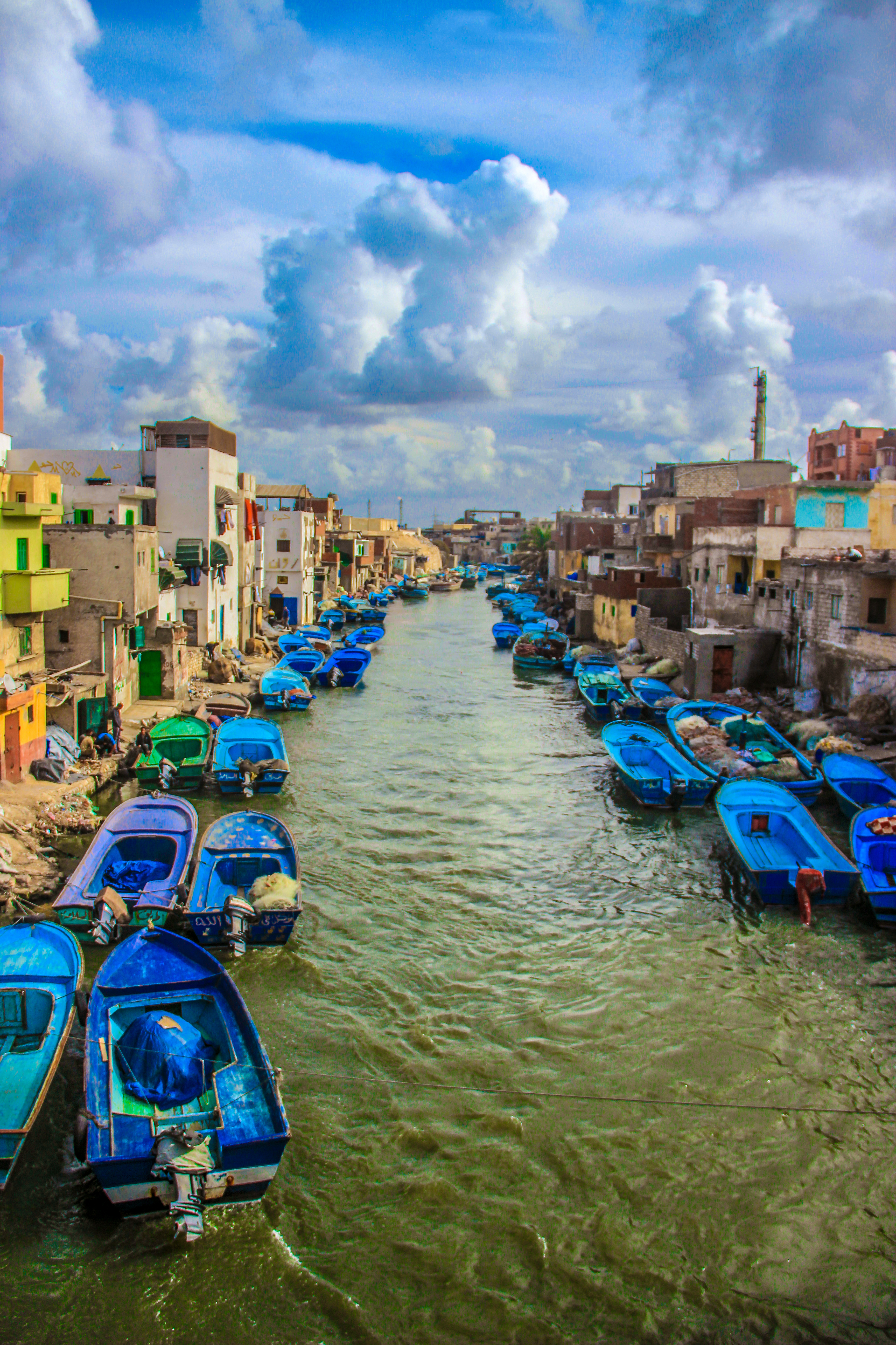 El-Max,Alexandria is one of the places people rarely visit.Yet, El-Max is one of the most beautiful places in Egypt which you can see Egypt from a different point of view, A view of a Simple and poor people